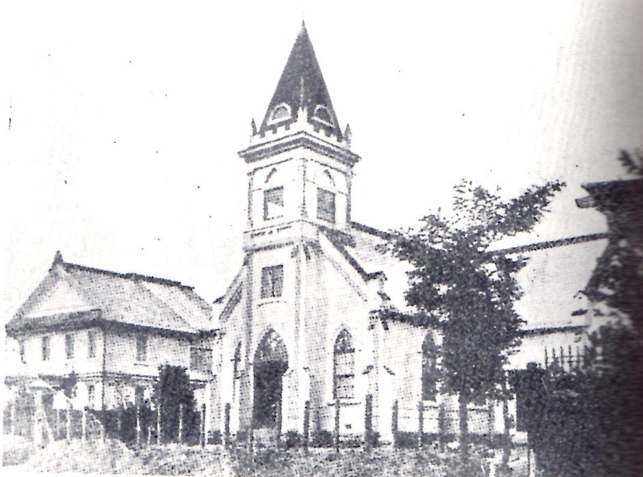 Hirosaki Methodist Church new chapel